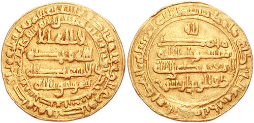 ISLAMIC, 'Abbasid Caliphate. Abu’l Abbas Ahmad al-Mu’tamid. 870-892. AV Dinar (21mm, 2.87 g). San'a mint. Dated AH 271 (AD 884/5). First part of the Kalima; citing heir al-Muwaffaq below, mint and date in inner legend / Continuation of Kalima; citing vizier Dhu’l Wizaratayn below. Album 223; cf. Album 240.6 for AR Dirhems with this type. Good VF. Rare.